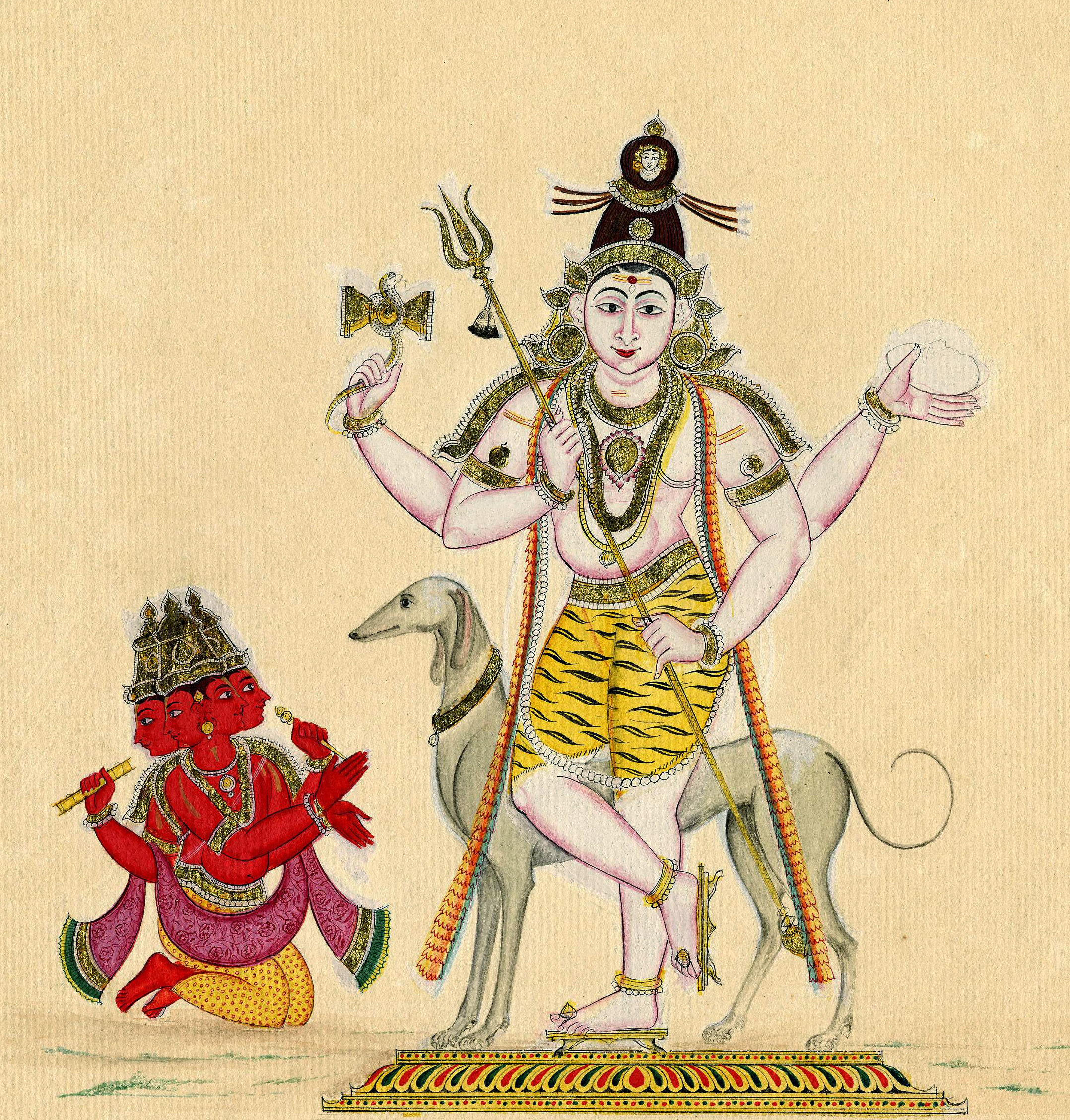 "Painting of Siva as Bhairava. He is depicted standing in front of a hunting dog, similar to greyhound. The god is shown four-armed with damaru in his upper right hand and the head of Brahma in his upper left; with his front two hands he grasps the trisula. He stands on a small platform. To his right squats a diminutive figure of Brahma, red-skinned and four-armed; hiis front two hands are held, appropriately, in anjalimudra. Siva wears his hair in the jata in which Ganga is seen. A suggestion of perspective is provided by the lightly sketched in foreground. On laid European paper watermarked with 'W T' and an armorial design."